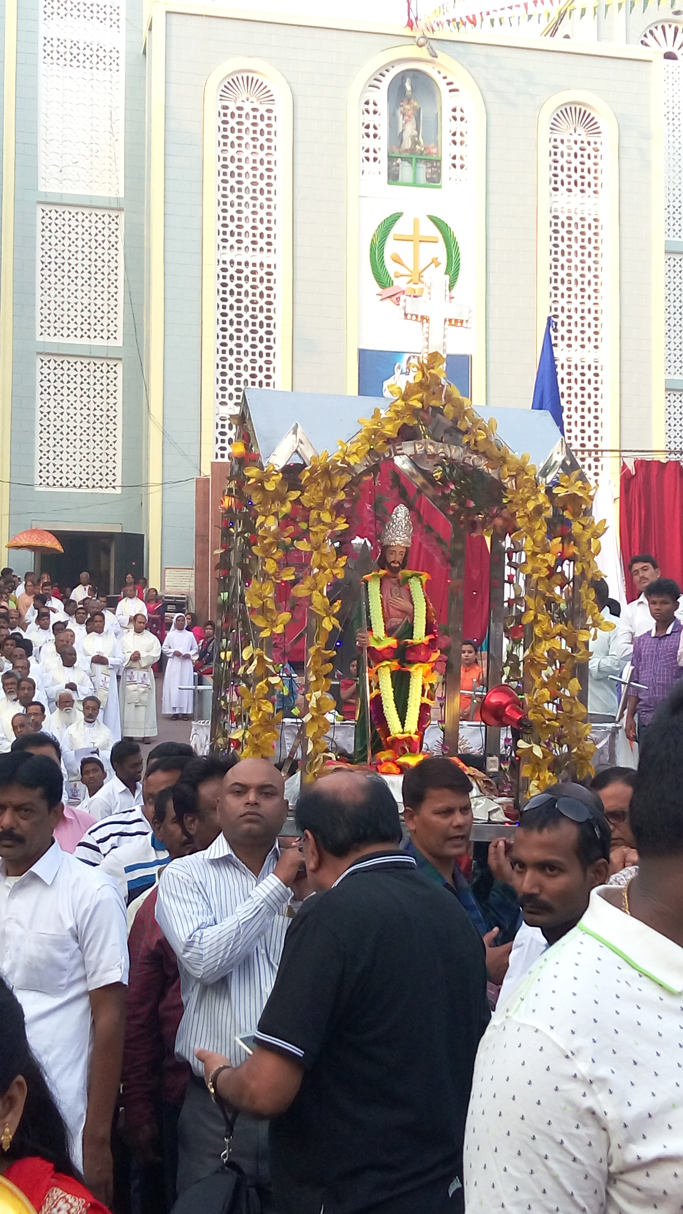 This is a statue of St Jude during its annual car procession on its feast day.